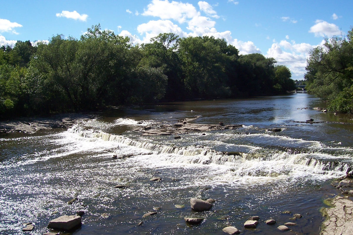 Copyright © 2005 Sulfur A scenic waterfall caused by a Dolomite rock outcropping along the Milwaukee River at Estabrook Park in Milwaukee, Wisconsin. Category:Images of Milwaukee, Wisconsin